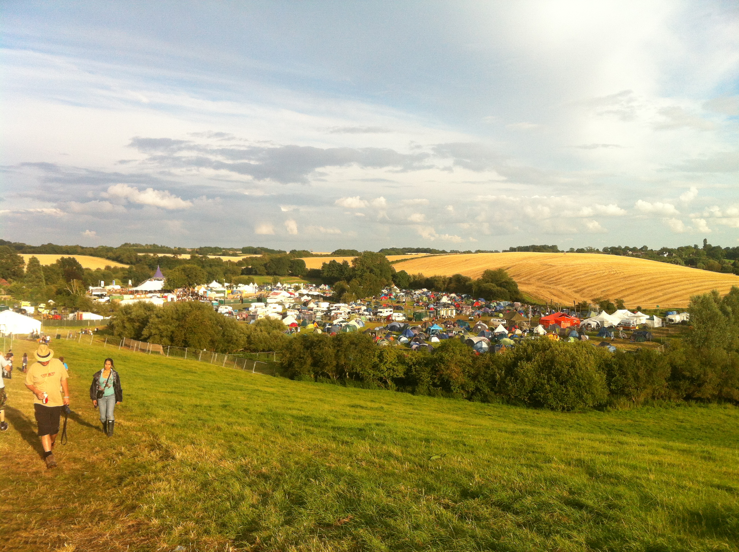 Standon Calling is a small annual music festival held near the village of Standon, United Kingdom, in the grounds of private residence Standon Lordship. It is an unsponsored, themed boutique festival which grew from a birthday barbecue into an annual public event.